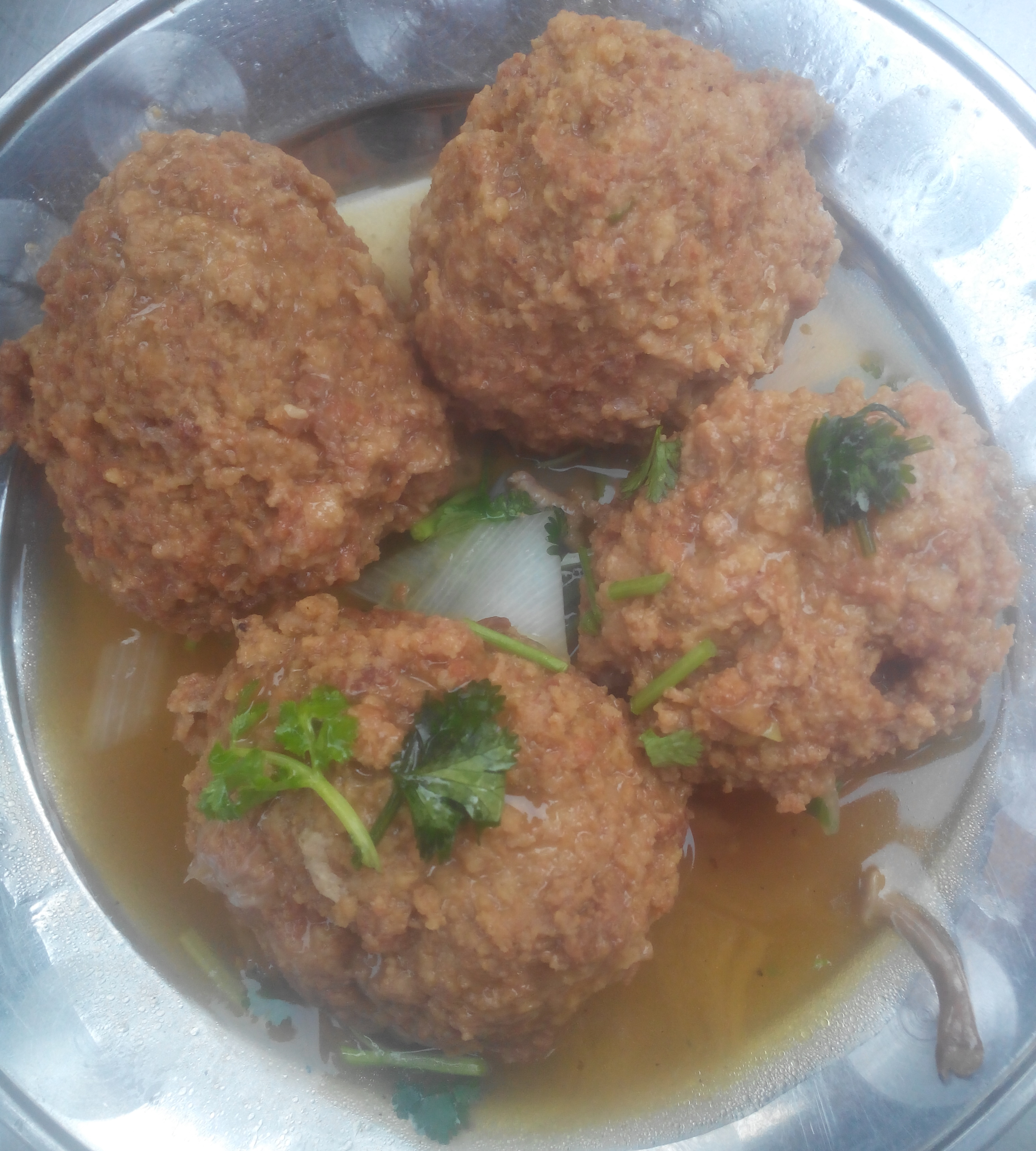 Sixi Balls